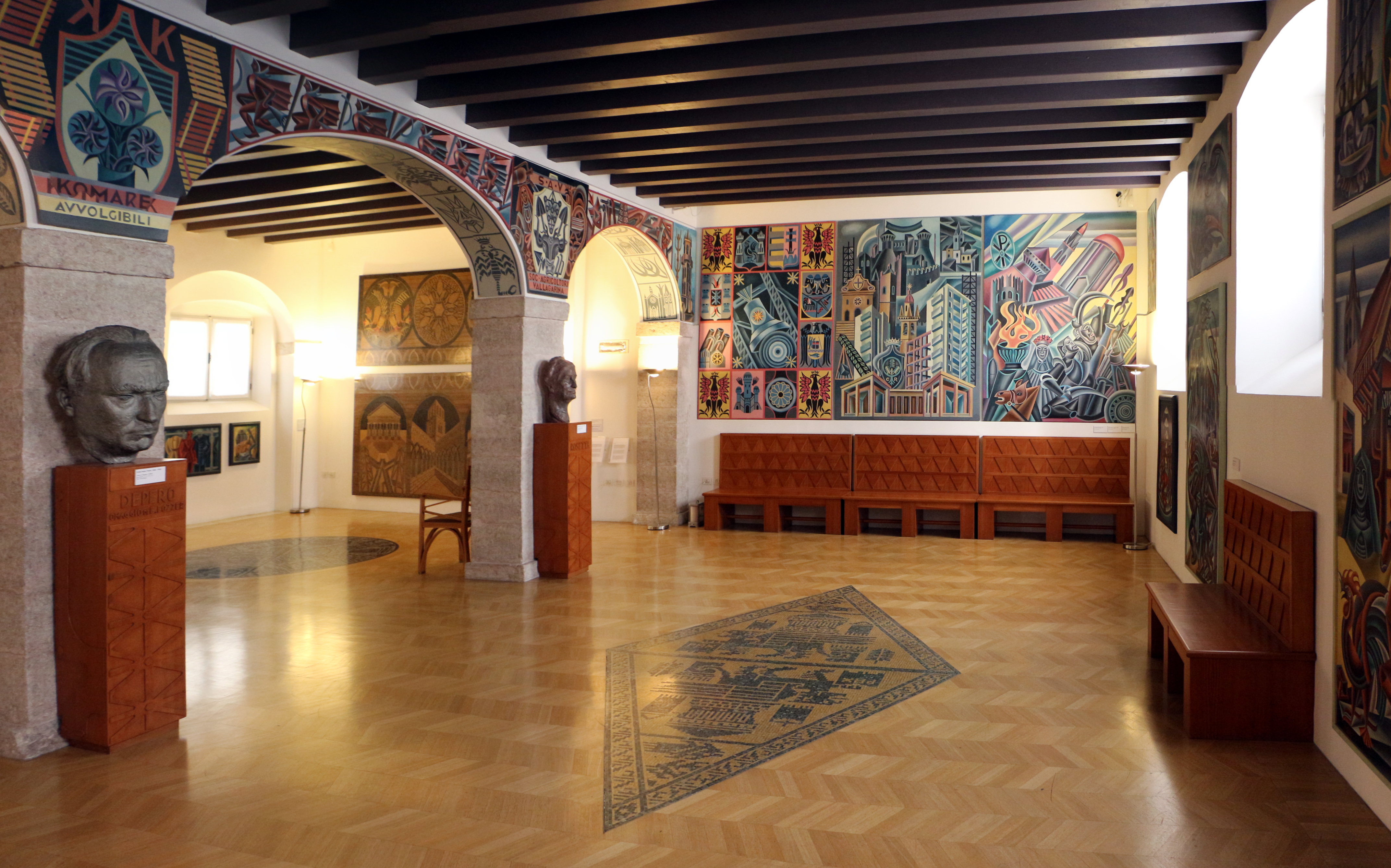 Rovereto